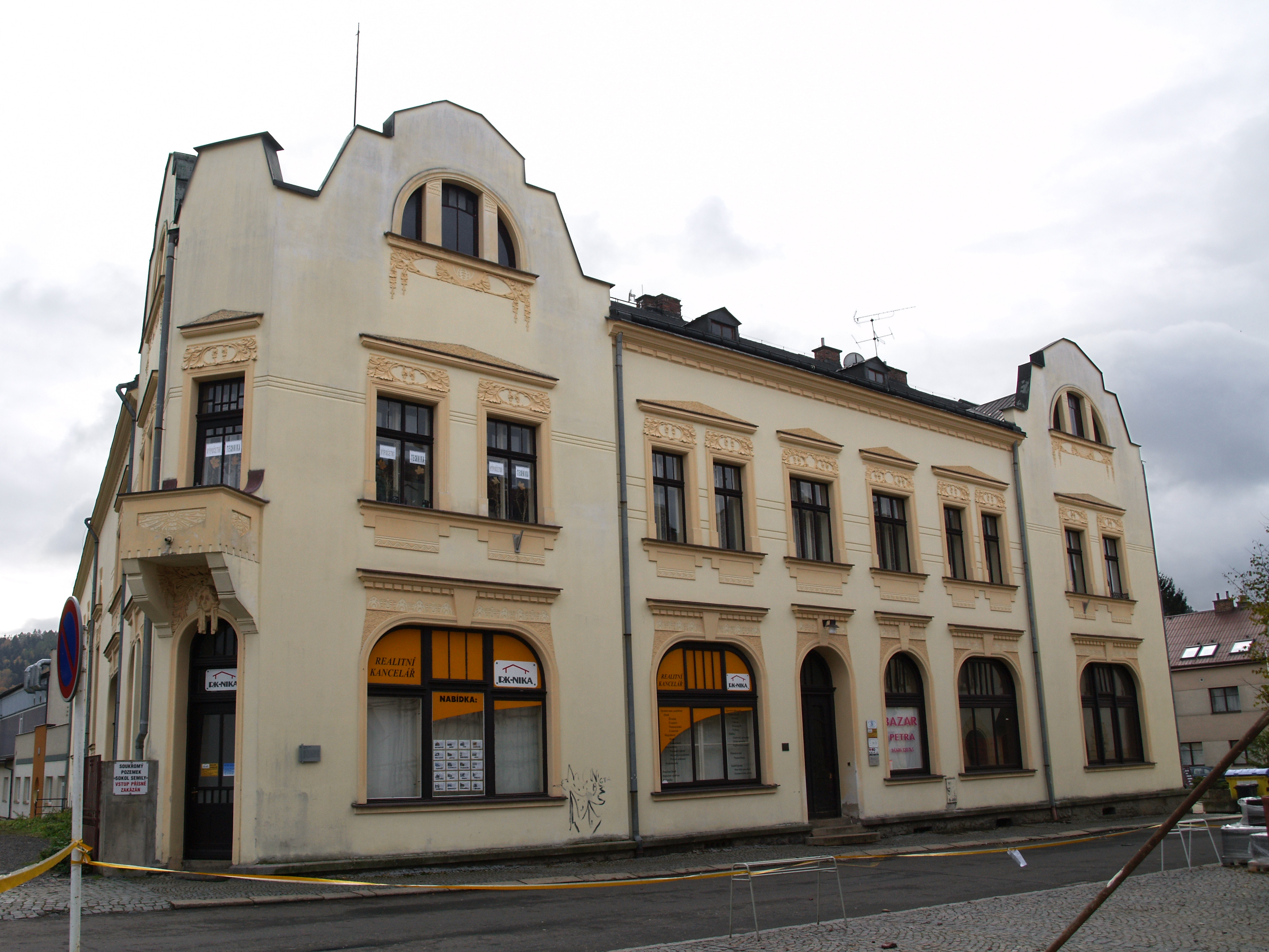 Czech town Semily—Sokol house